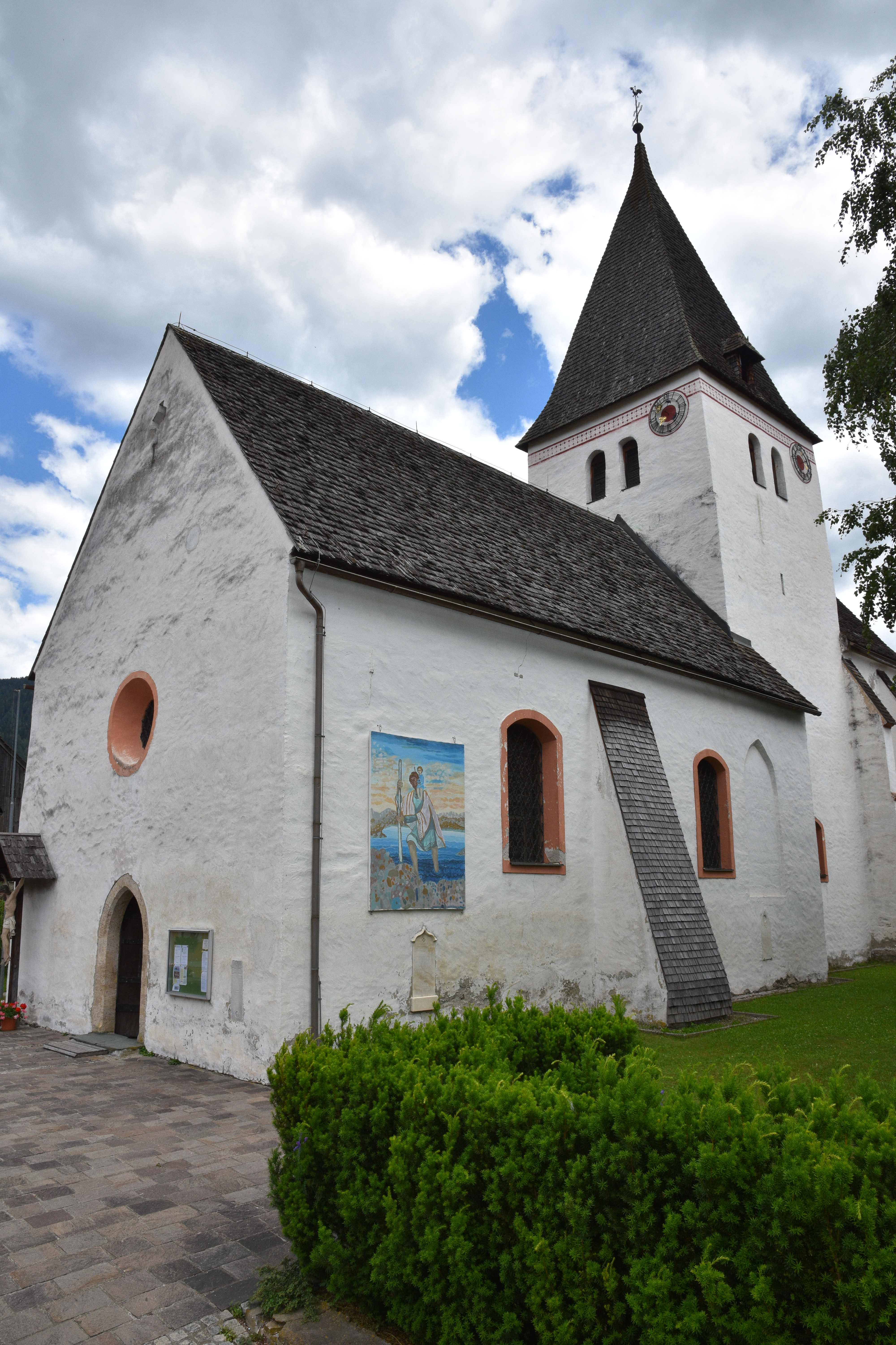 Church Pfarrkirche Niederwölz